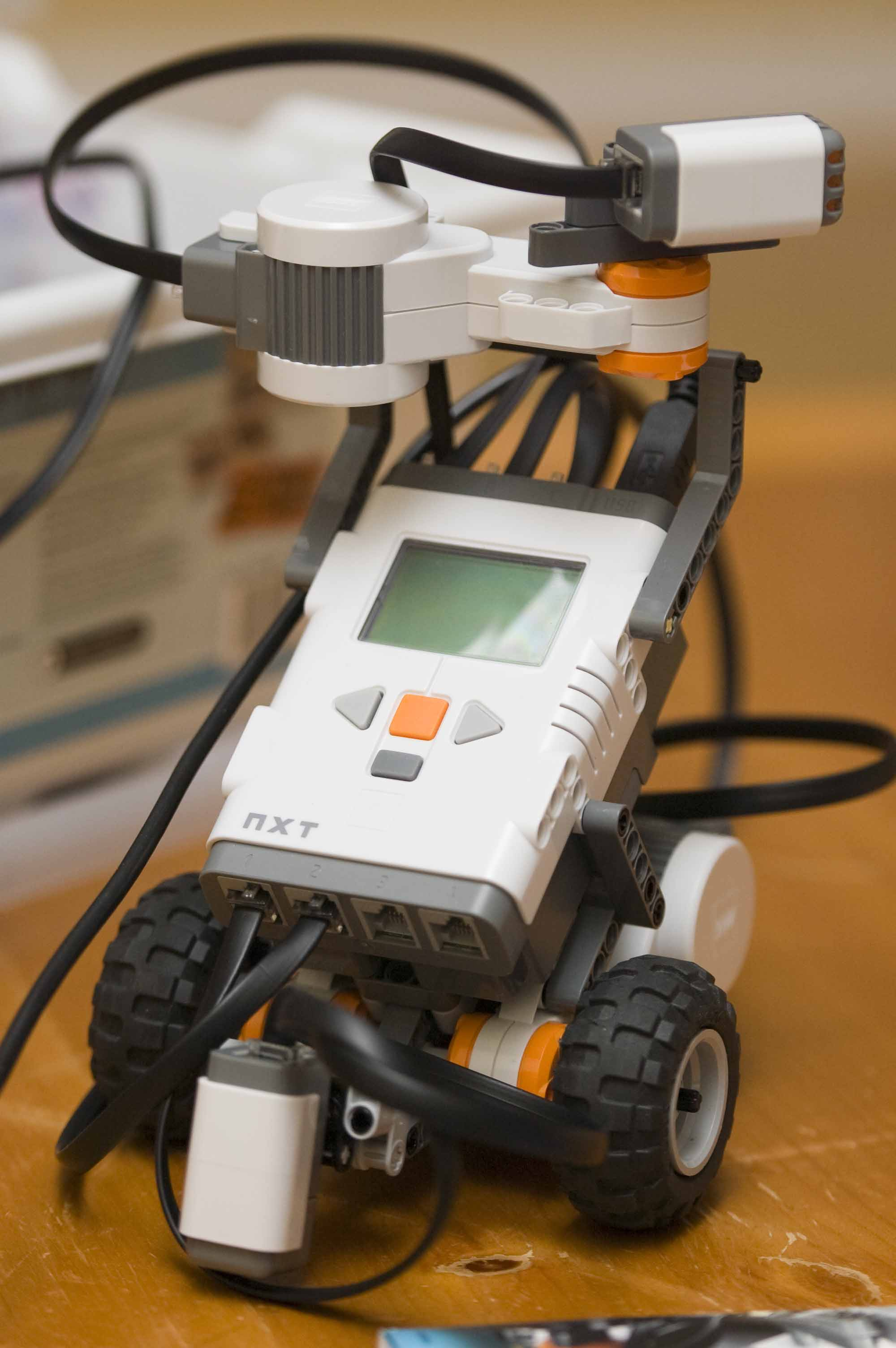 A, very basic, voice controlled robot. The robot sweeps the microphone in a returning circle pattern and turns and heads towards the loudest sound from the last sweep. The robot is voice controlled by watching the microphone position and speaking to the robot when the microphone is pointed in the right direction.